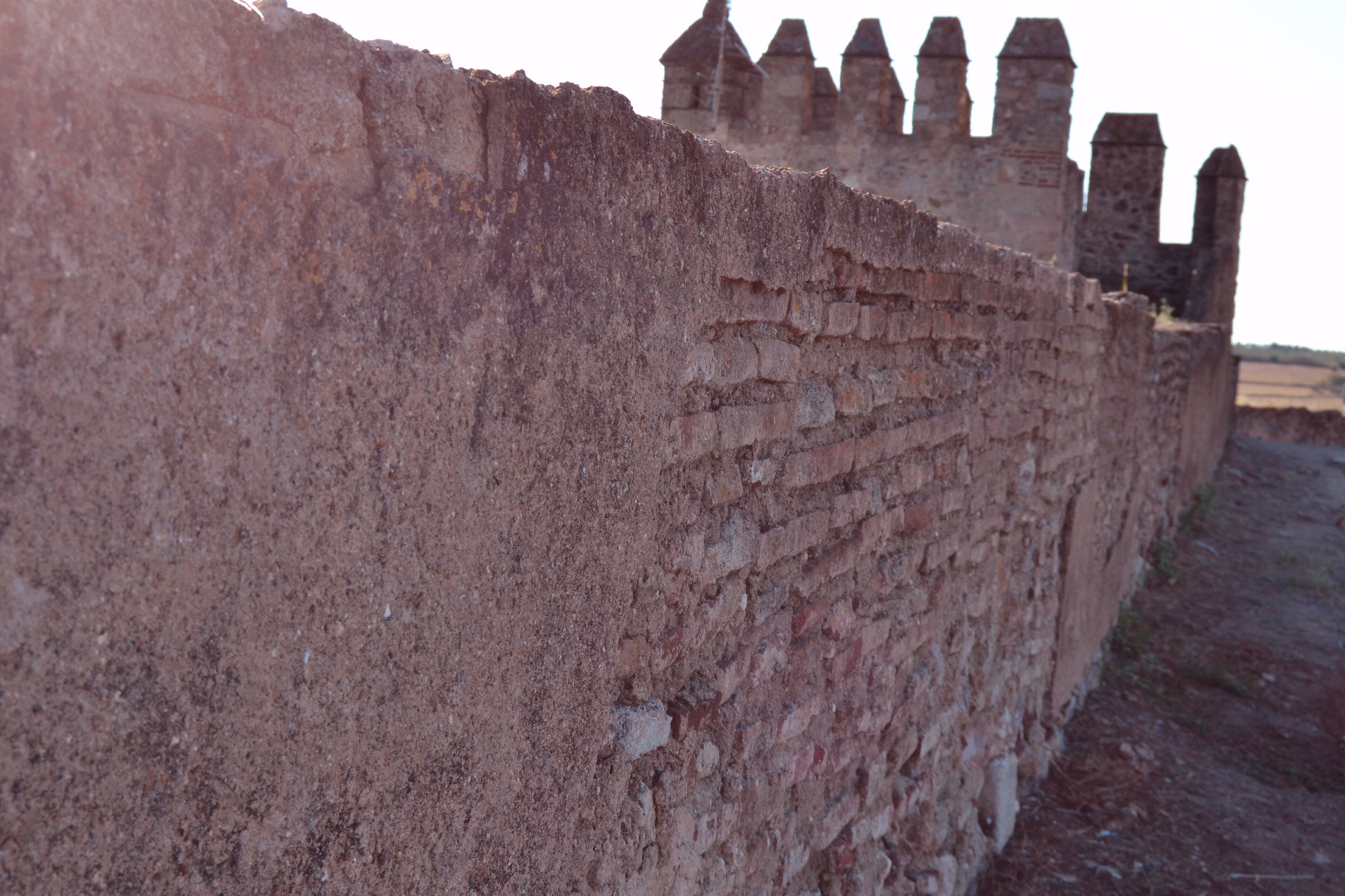 This file was uploaded for Wiki Loves Monuments in Portugal with the unique identifier 71110.